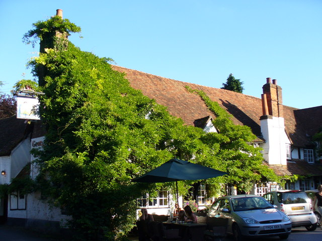 Evening at The Bull Ivy-clad inn in the lee of Sonning's St Andrew's churchyard.